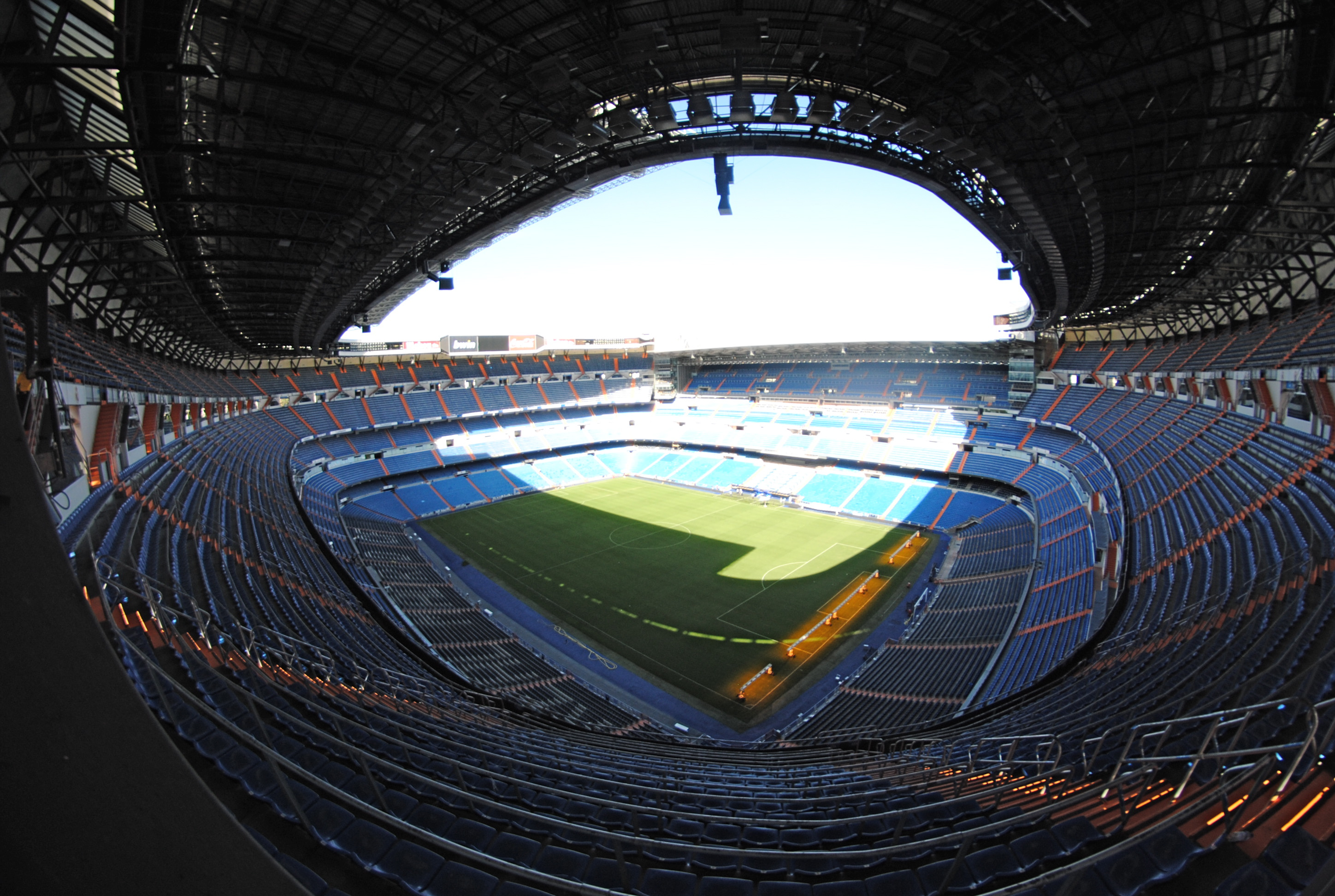 Santiago Bernabéu Stadium, home of the Real Madrid football club.